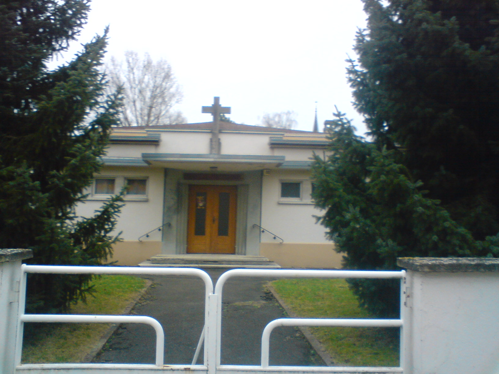 The temple of Saint-Louis Bourgfelden.